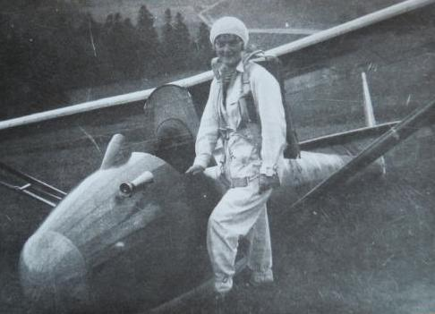 Maria Younga-Mikulska with her glider